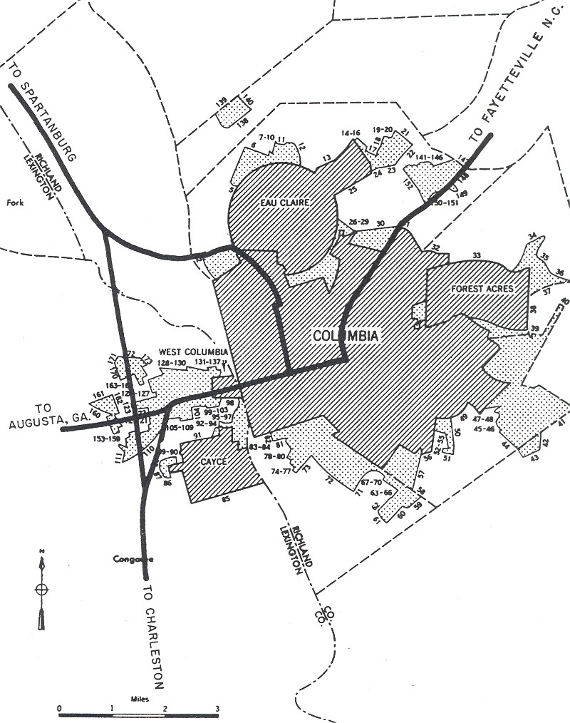 Interstates in today's terms I-20 (bypasses to the north) I-26 I-126 (only built north of downtown